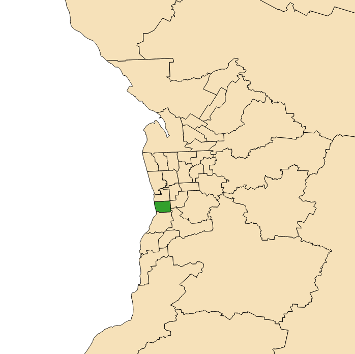 Electoral district 2018 boundaries shown in green